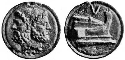 Quincussis, 225-217 BC